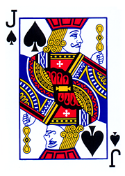 A Playing card: jack of spades , from poker deck, in small PNG format.